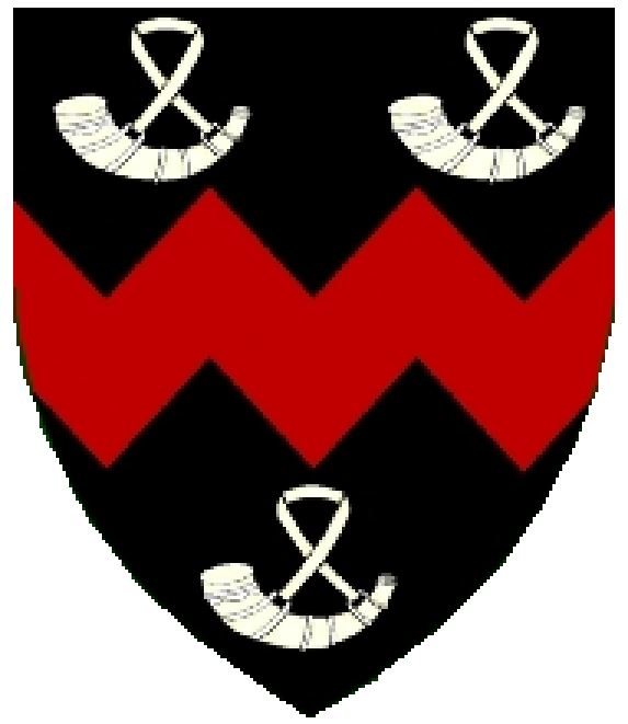 SANDF 6 Field Artillery Free State emblem